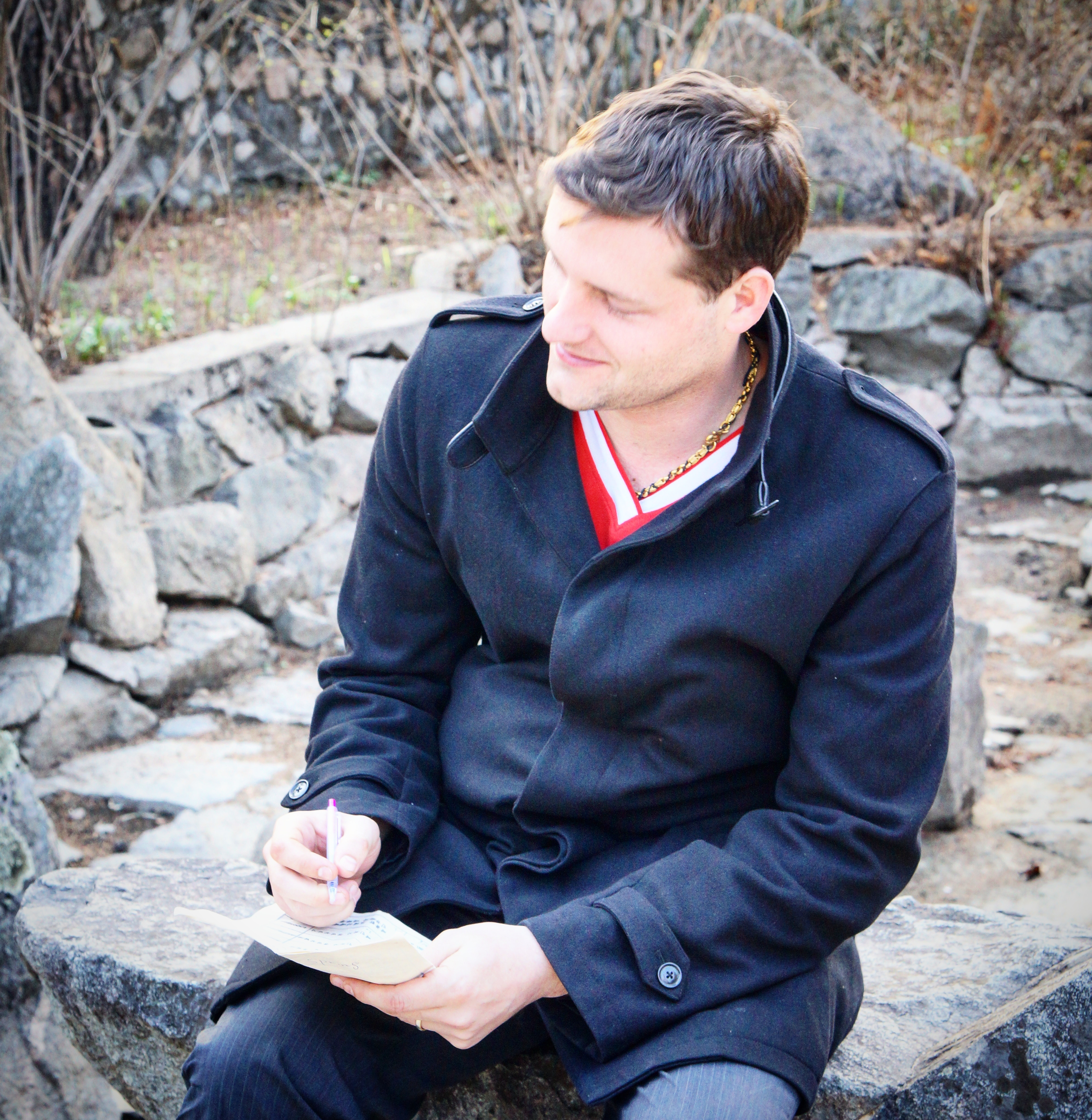 Troy Collings YPT Co-Founder and North Korea Tour Guide